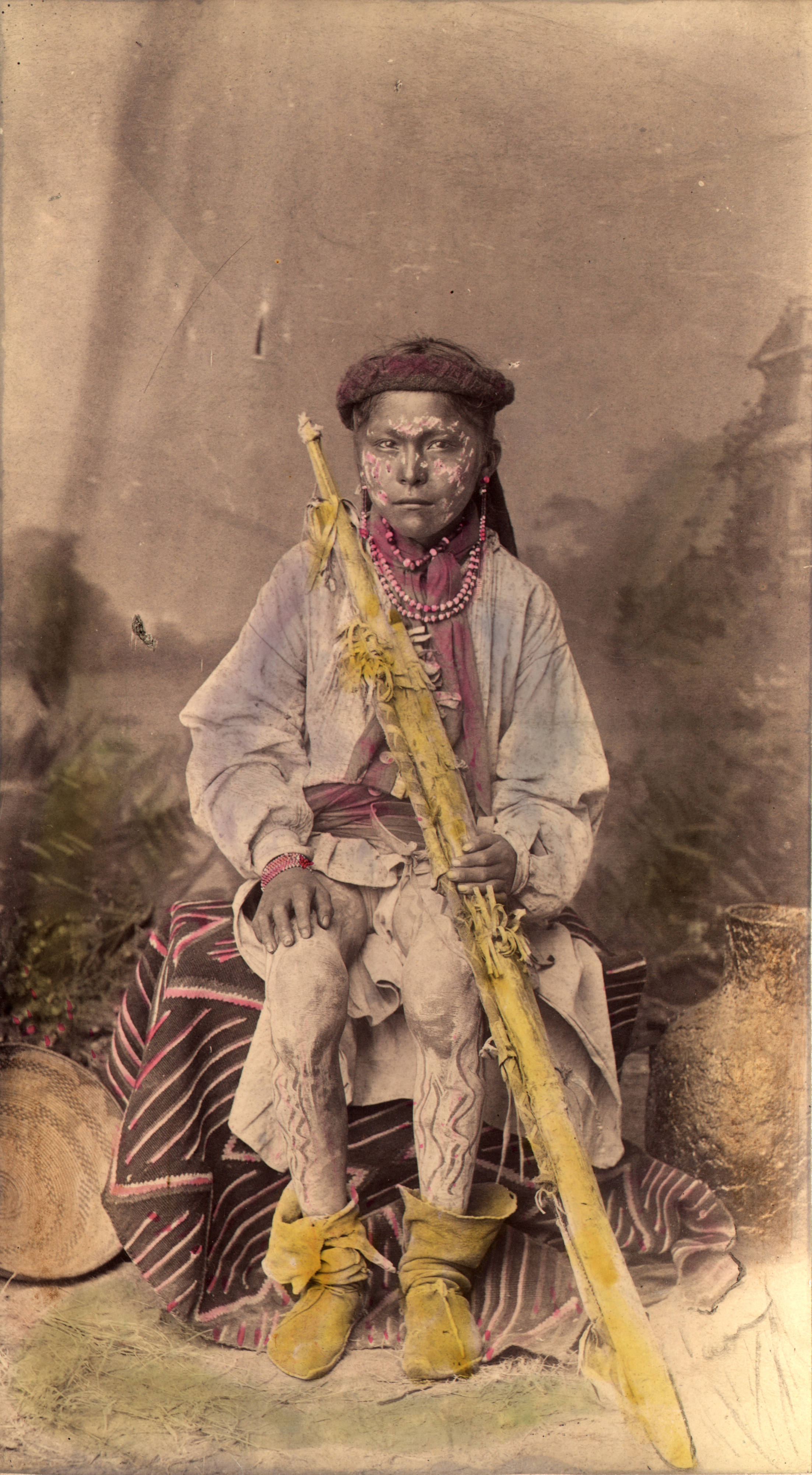 Seated studio portrait of a Native American Mescalero Apache boy, he holds a quiver and wears body paint, a long shirt, breechcloth, head band, neck scarf, bead necklace, and earrings. A basket, pot, woven blanket and painted backdrop serve as props.